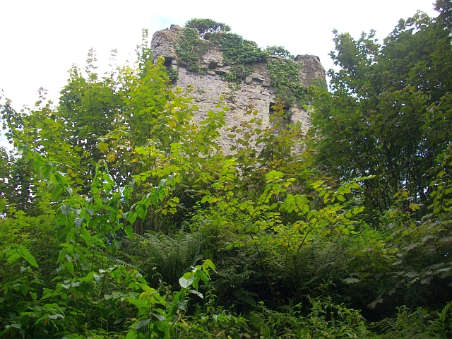 Myrton Castle on the border of Glasserton and Mochrum old parishes. by Bob Embleton. "We followed the heavily overgrown red route on the Monreith Map in the carpark to eventually hack our way through to this point. Built on a 12th century motte, Myrton Castle is a ruined, 16th cent5ury, l-shaped, tower house."